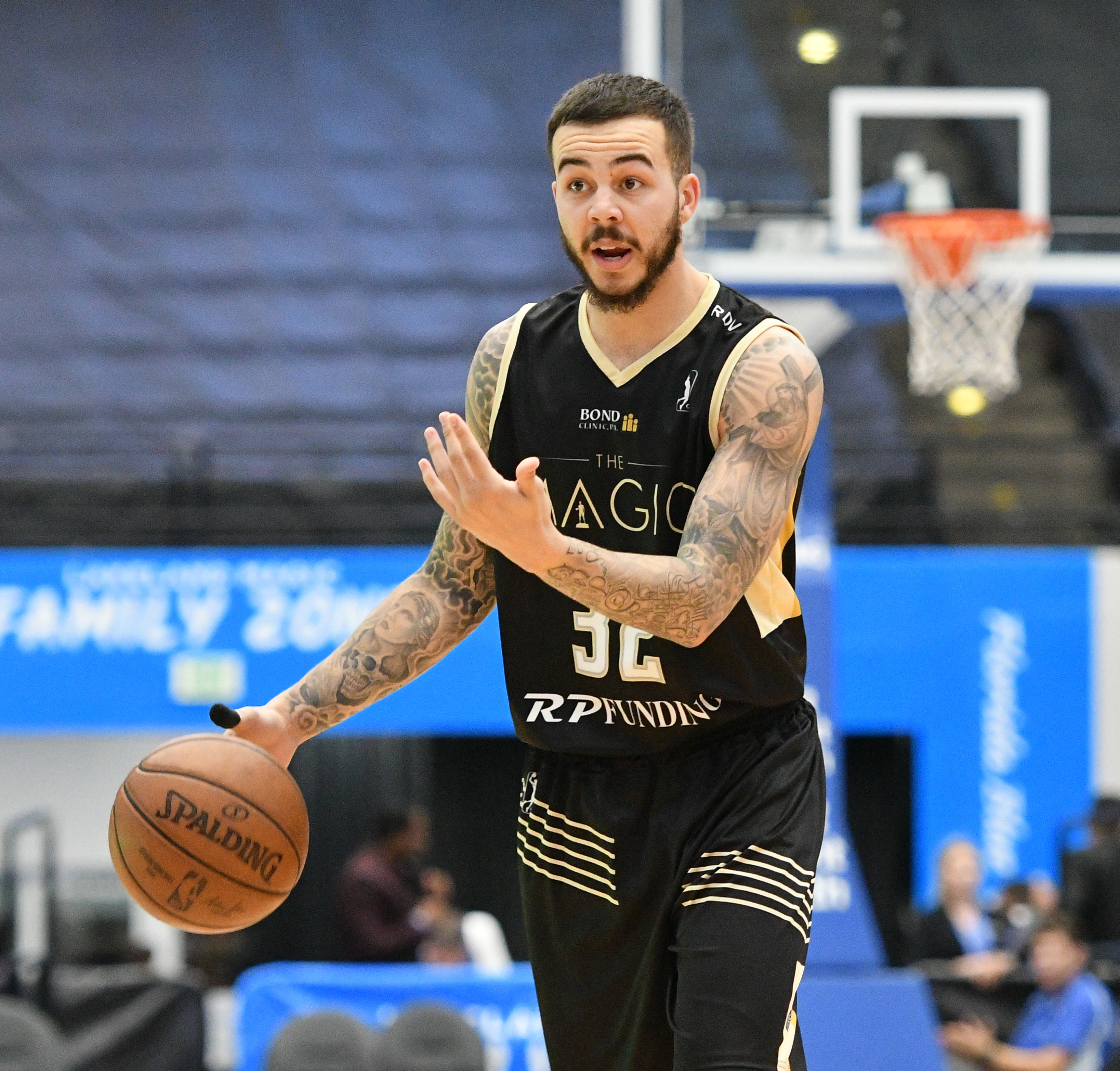 Lakeland Magic v Salt Lake City Stars. RP Funding Center. Lakeland, Fla. Feb. 22, 2019. (Photo by Tom Hagerty.)